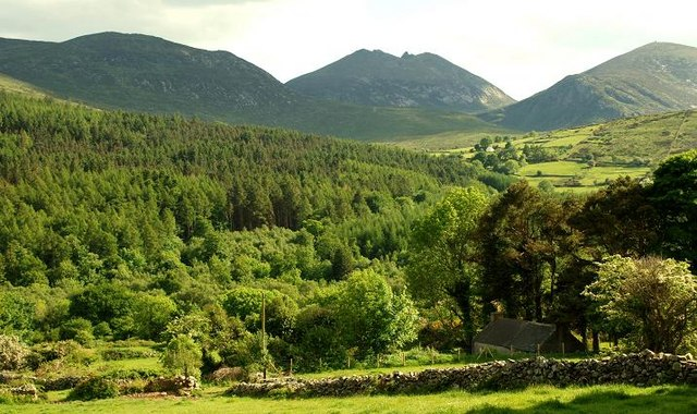 Mourne country near Bryansford (2) Mourne country seen from the Bryansford – Hilltown road. Tollymore forest occupies most of the picture. The cragged mountain in the background is Slieve Binnian.